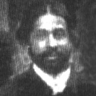 Photograph of Indumadhab Mallick (1869 - 1917), Indian polymath and inventor of Icmic cooker.